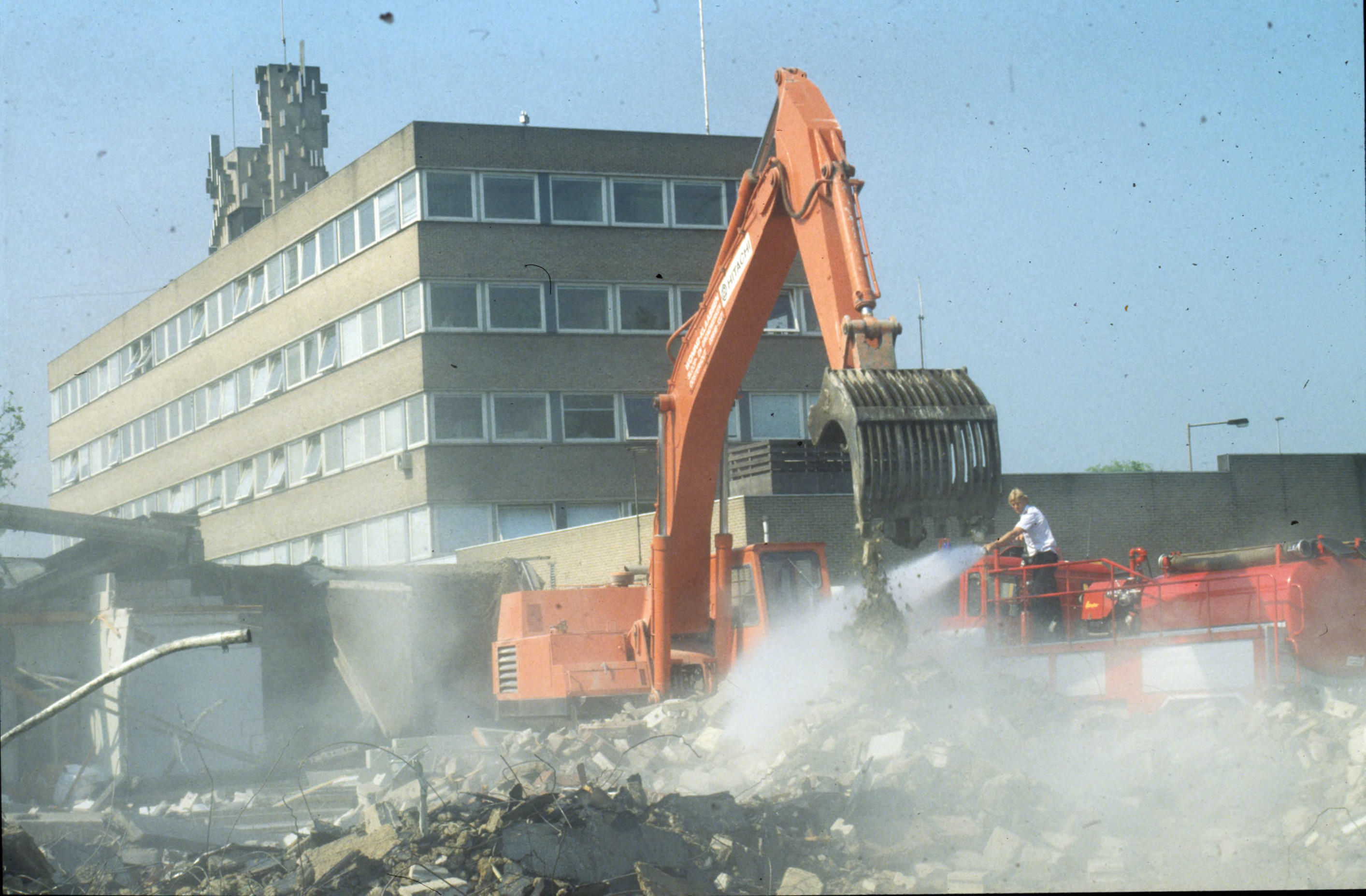 Demolition activities at Eusebiusbuitensingel, Arnhem, Netherlands, in 1997. In the background the GEWAB-building, with the concrete structure of Livinus van de Bundt's light art (light carillon) on the roof.